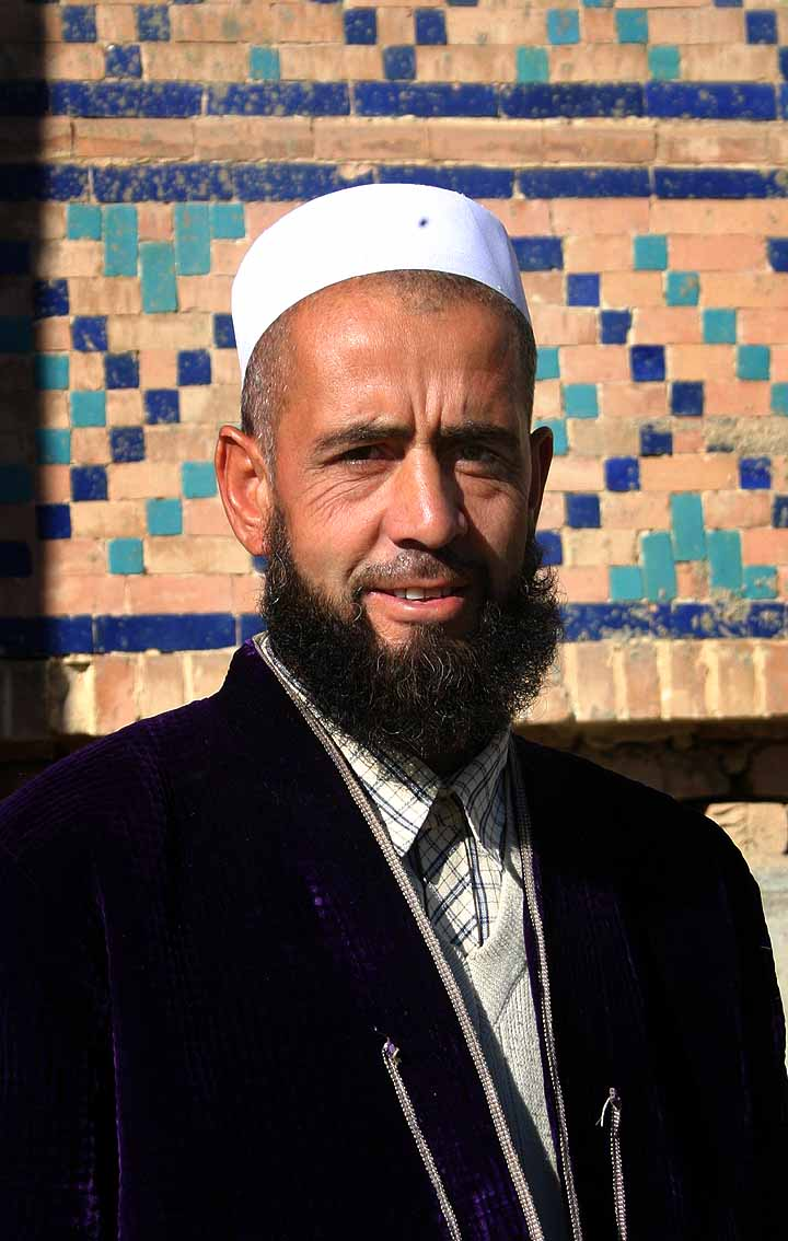 A Tajikistani man with white cap on his head.